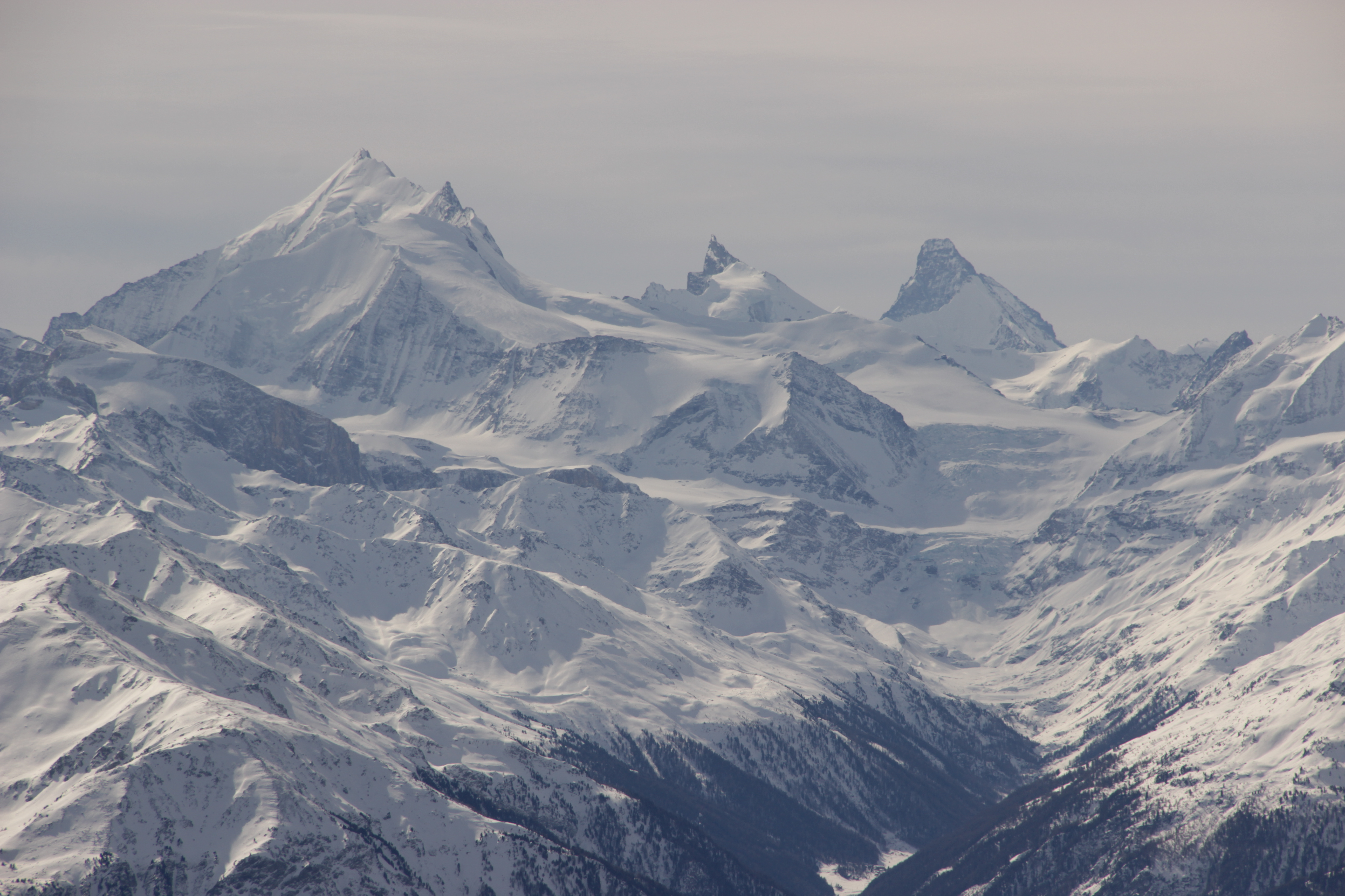 Weisshorn, Zinalrothorn and Matterhorn